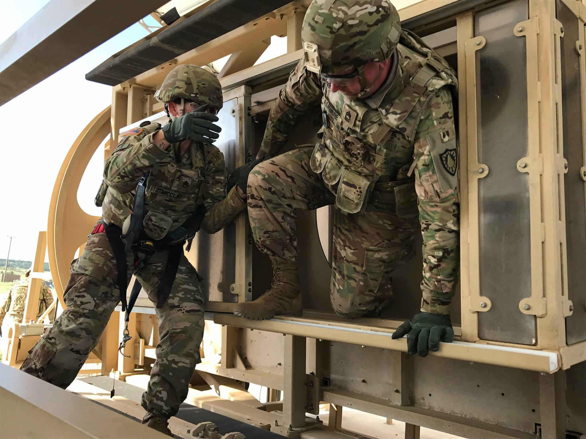 Soldiers deployed with the Maine National Guard's 120th Regional Support Group use a simulator to practice safely exiting a rolled over vehicle as part of their mobilization training. The simulator allows Soldiers to experience what it is like to be in a rollover incident and helps them know alternative, safe options to leave the vehicle. (Photo courtesy of Maj. Colleen Swanger)